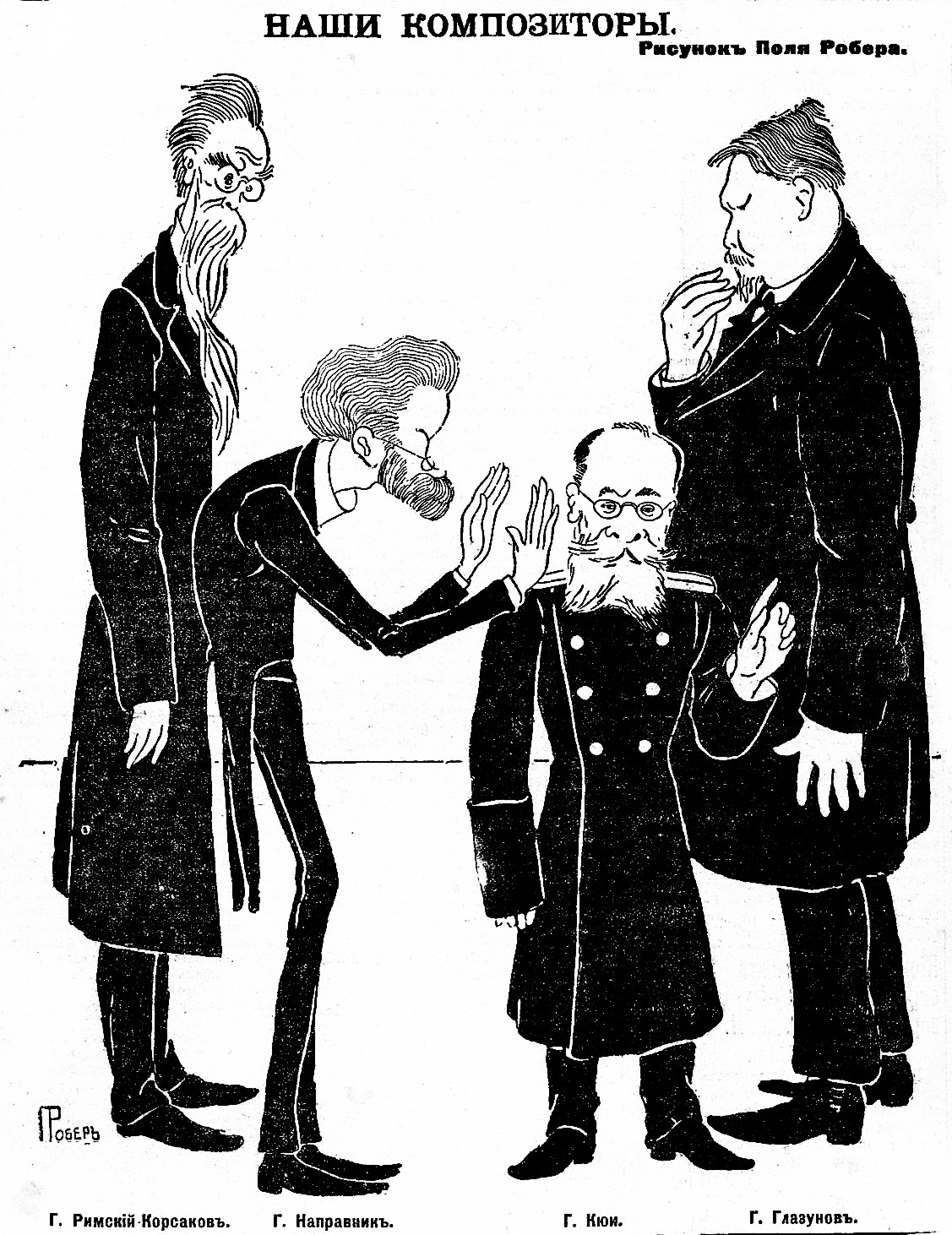 Nikolai Rimsky-Korsakov, Eduard Nápravník, César Cui and Alexander Glazunov on a caricature from "All St. Petersburg in Caricatures" by Paul Robert · 1903 · St. Petersburg